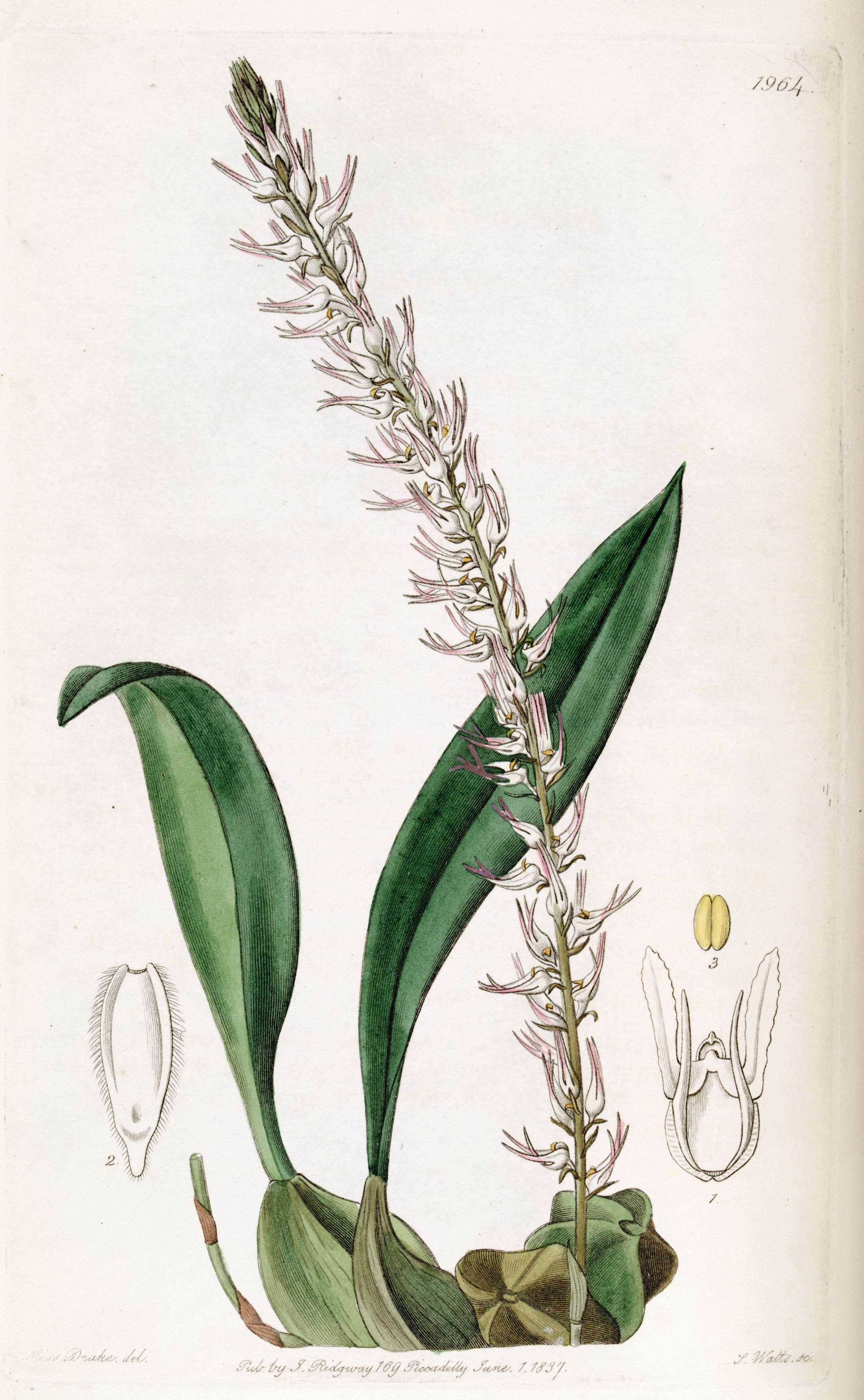 Bulbophyllum cocoinum (spelled Bolbophyllum cocoinum)